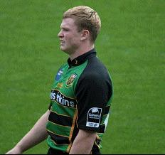 Chris Ashton.